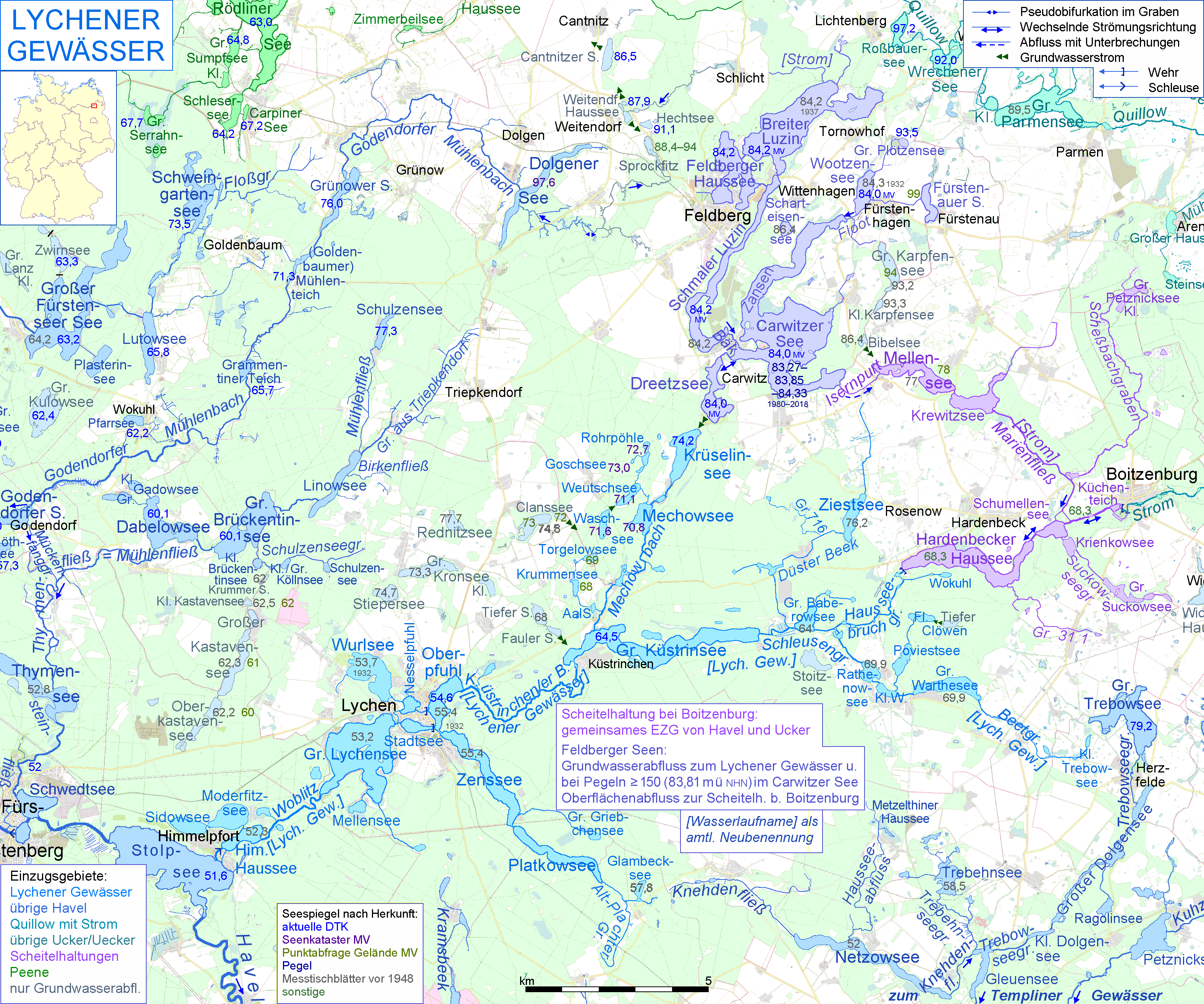 Map of river Lychener Gewässer and the lakes around Feldberg (the municipality of Feldberger Seenlandschaft), showing the ambiguating routes of discharge of the lakes, the two western routes via ground water and via open-air waterways to river Havel at Himmelpfort near Fürstenberg and the eastern course to river Ucker near Prenzlau This map may be incomplete, and may contain errors. Don't rely solely on it for navigation.